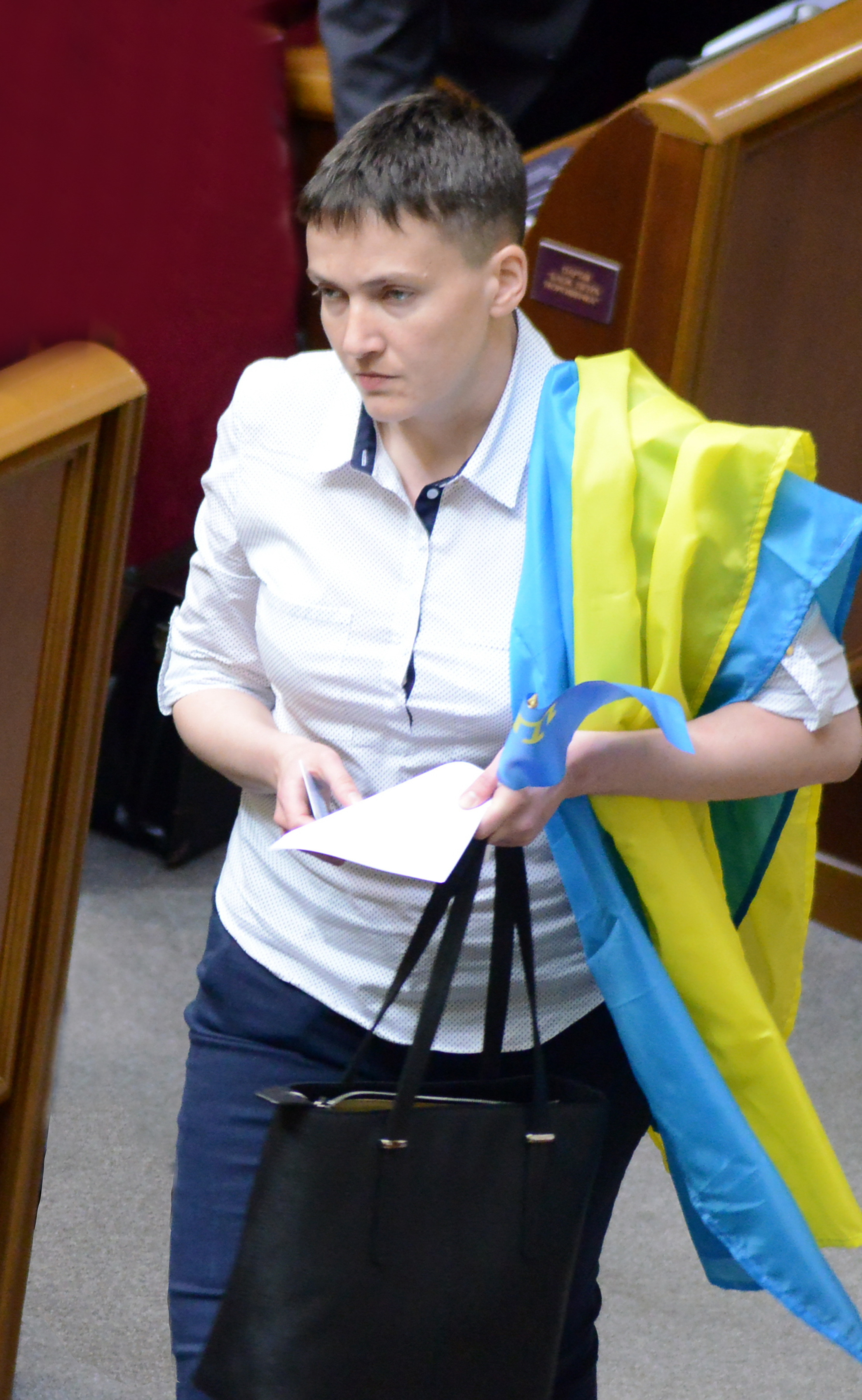 The Parliament of Ukraine, 31.05.16 Photo by Vadim Chuprina